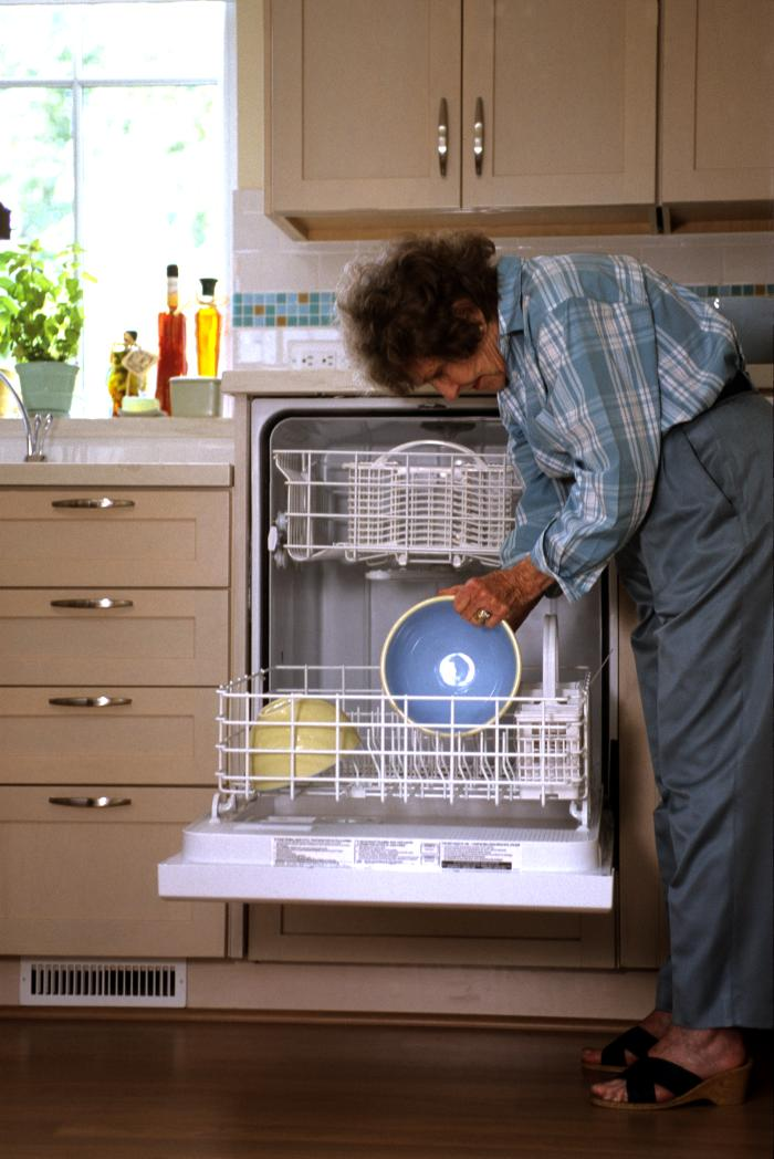 Dishwashers installed this way raise the storage area within reach of people who use wheelchairs and of people who have difficulty bending down to the level of a conventionally installed dishwasher.